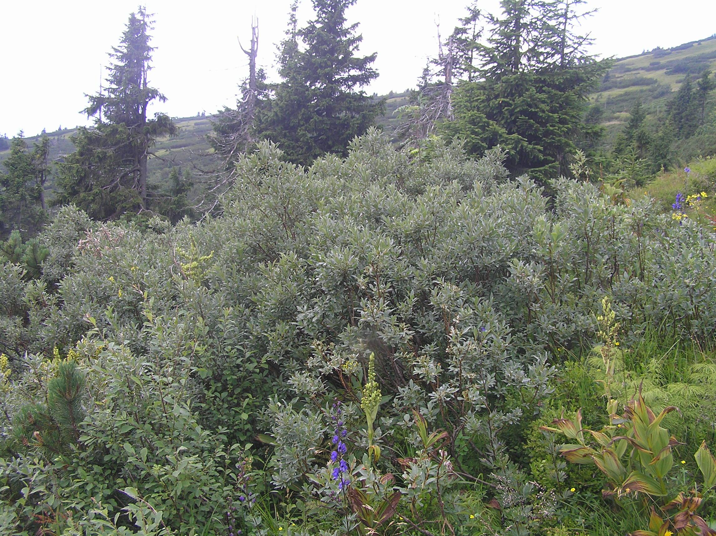 Salix lapponum, Modrý důl, Krkonoše, Czech Republic